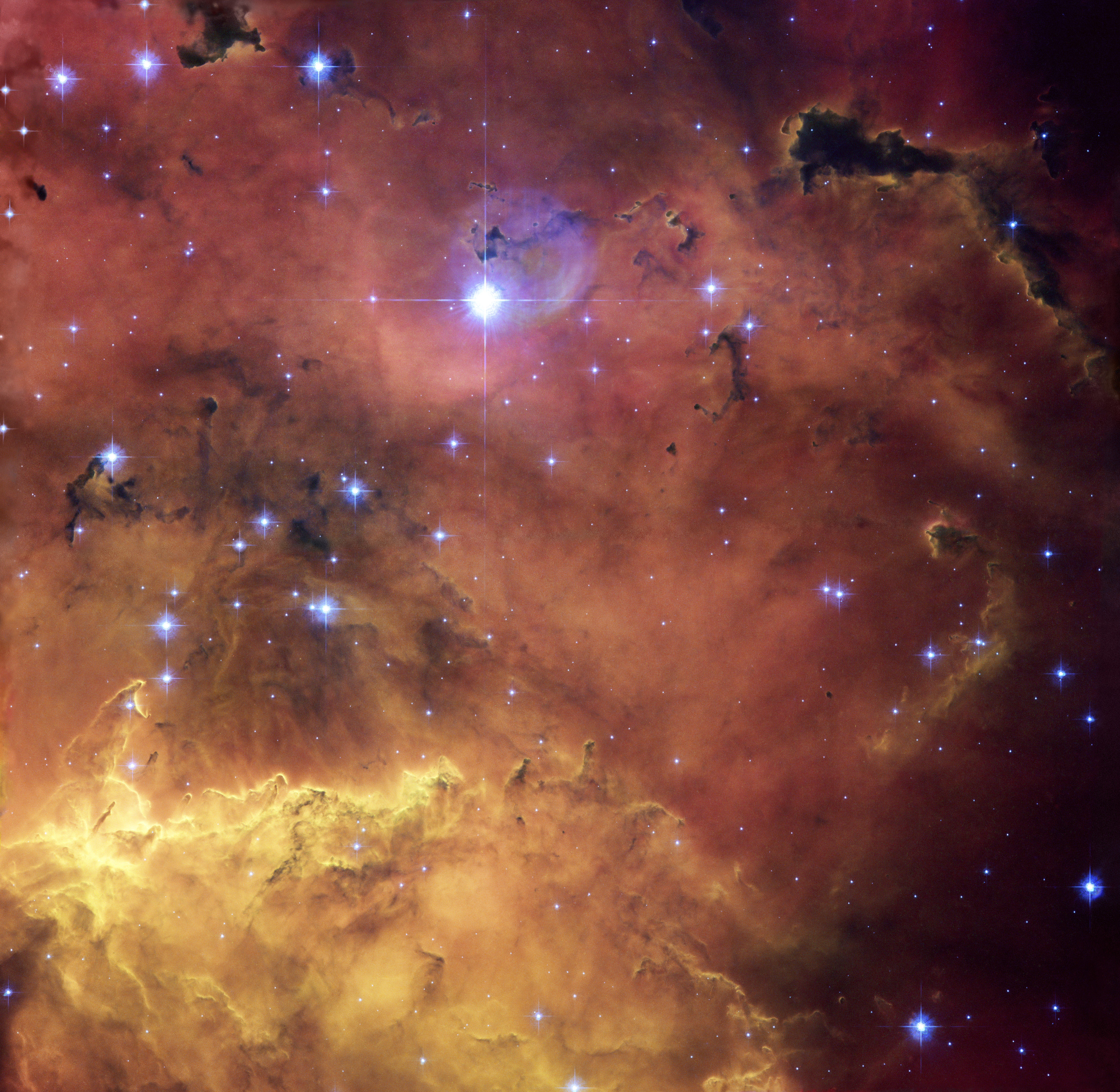 A colourful star-forming region is featured in this stunning new NASA/ESA Hubble Space Telescope image of NGC 2467. Looking like a roiling cauldron of some exotic cosmic brew, huge clouds of gas and dust are sprinkled with bright blue, hot young stars. Strangely shaped dust clouds, resembling spilled liquids, are silhouetted against a colourful background of glowing. Like the familiar Orion Nebula, NGC 2467 is a huge cloud of gas — mostly hydrogen — that serves as an incubator for new stars. This picture was created from images taken with the Wide Field Channel of the Advanced Camera for Surveys through three different filters (F550M, F660N and F658N, shown in blue, green and red). These filters were selected to let through different colours of red and yellow light arising from different elements in the gas. The total aggregate exposure time was about 2000 seconds and the field of view is about 3.5 arcminutes across. These data were taken in 2004.